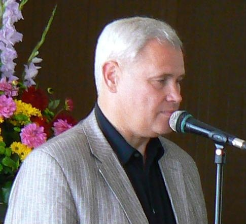 Mayor of Klaipėda city Vytautas Grubliauskas (2011-07-22)